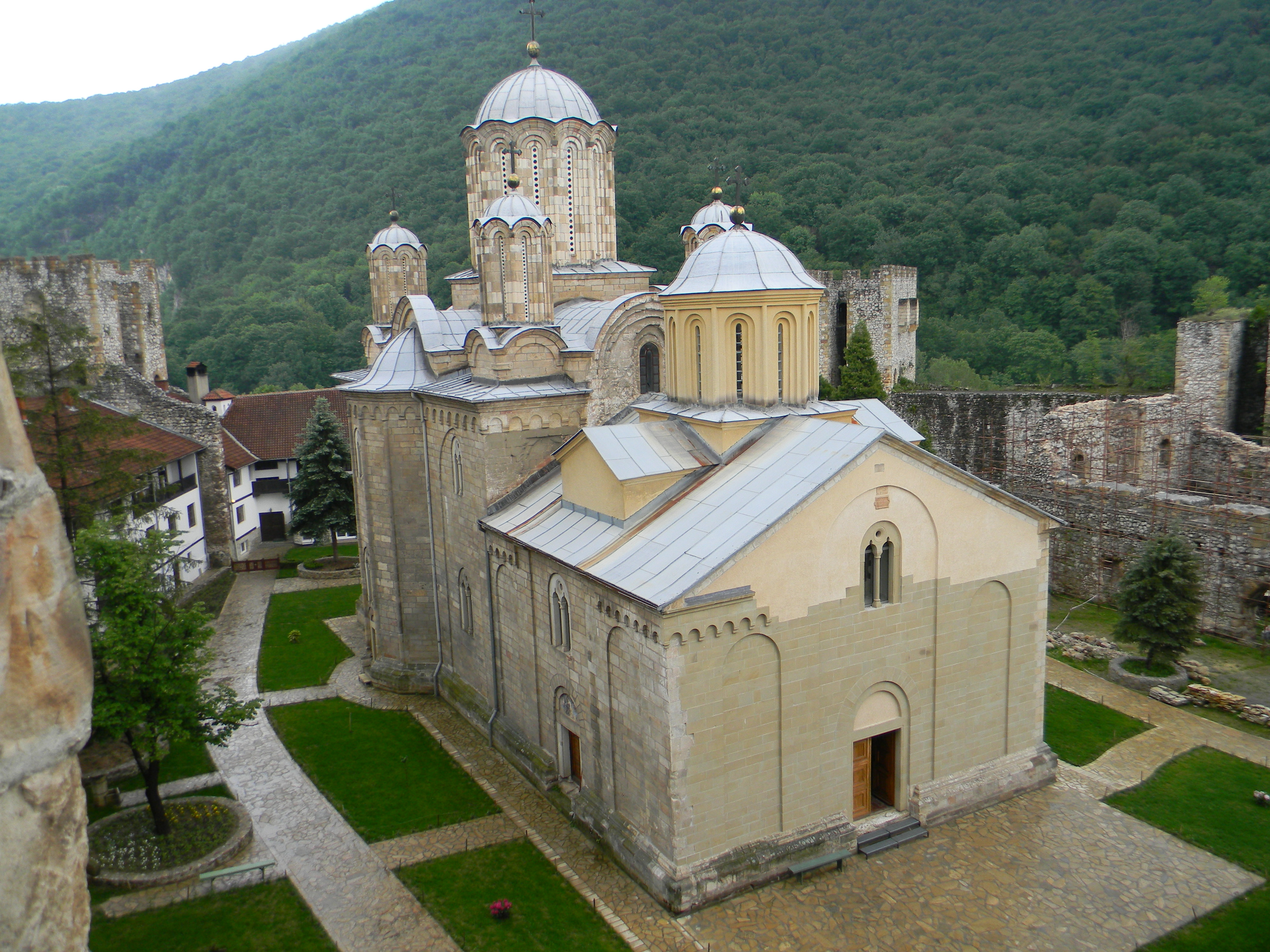 Fortress and Monastery of Manasija, near Despotovac, Serbia